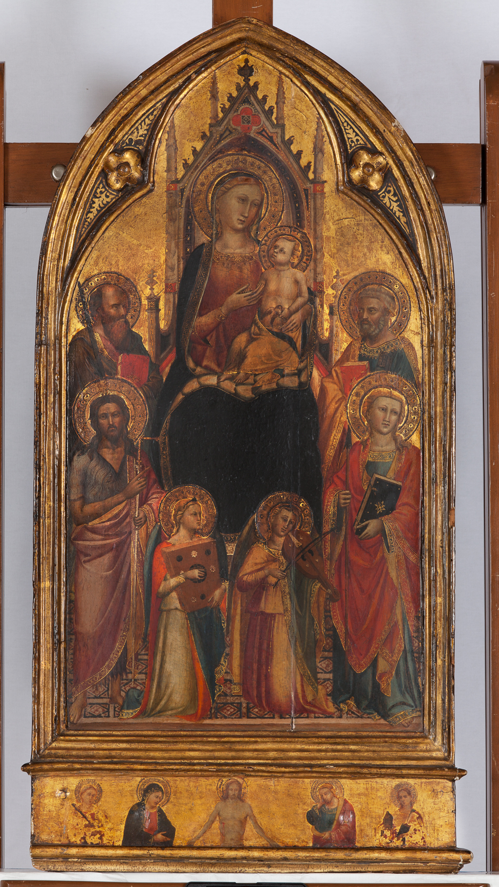 The Madonna and Child enthroned, with Saints John the Baptist, Paul, Peter and Thomas, and musical angels; at the predella: Christ as the Man of Sorrows, flanked by the Virgin Mary, Saint John the Evangelist and two female martyr saints.